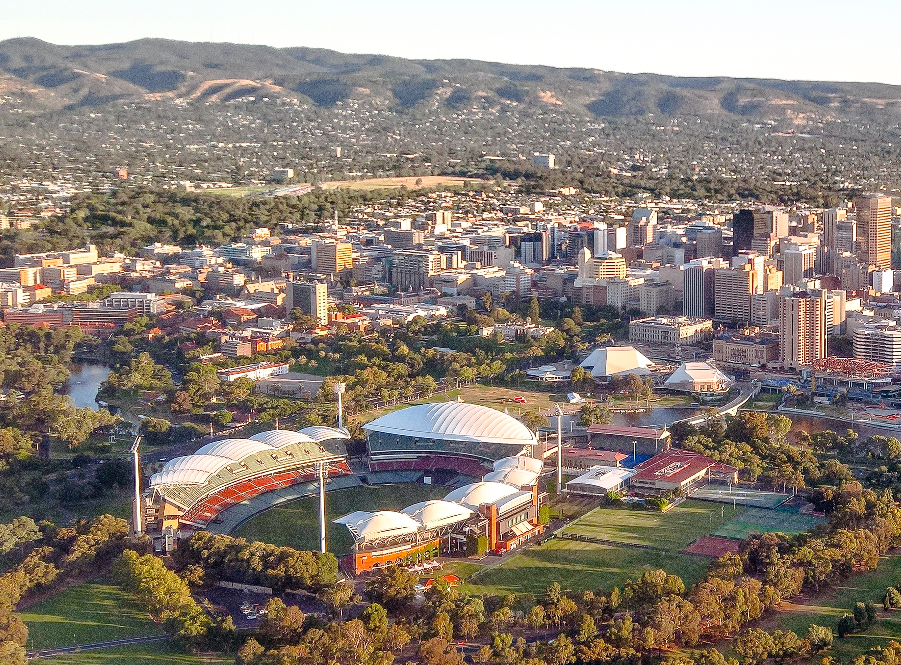 Adelaide city centre crop to focus on Adelaide Oval.